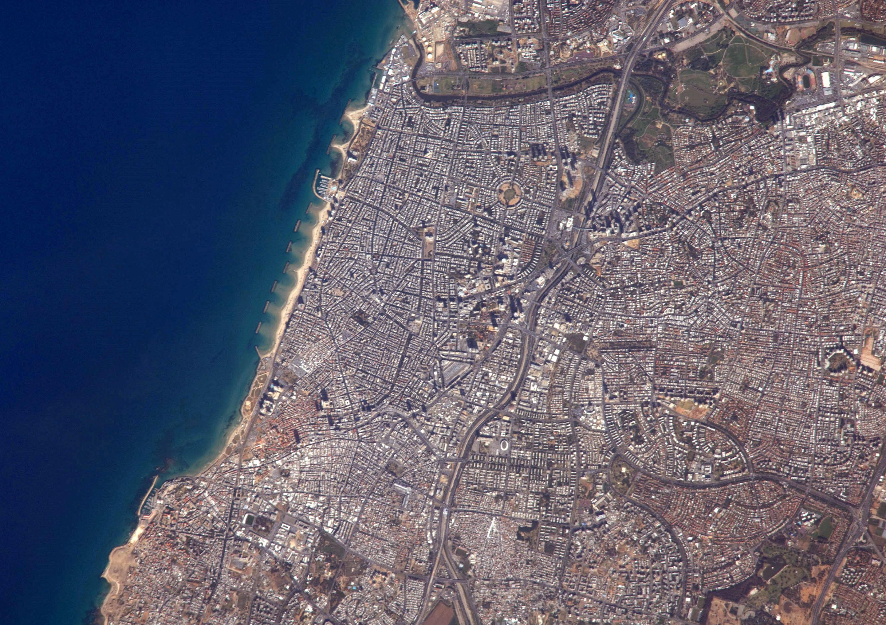 Tel Aviv, Israel’s largest metropolitan area, as seen from the International Space Station.